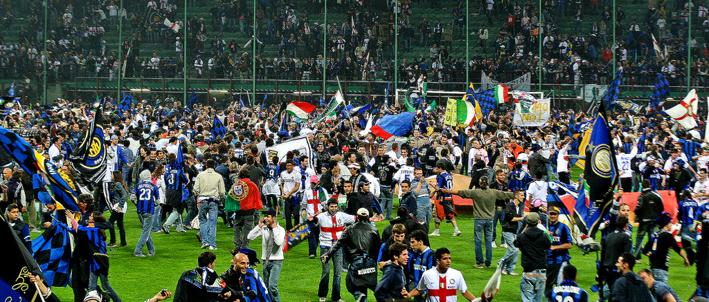 18 May 2008: San-Siro. Inter fans celebrate winning the Italian championship in 2008